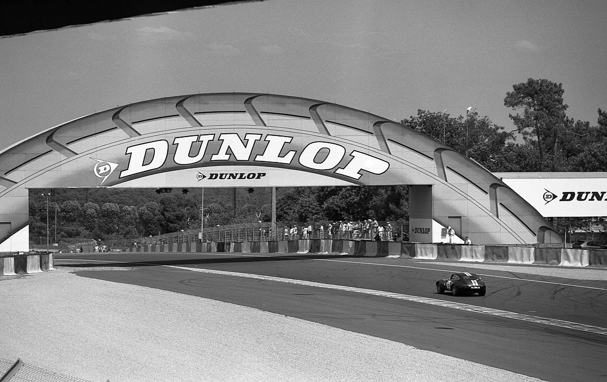 Le Mans (c.2000s)